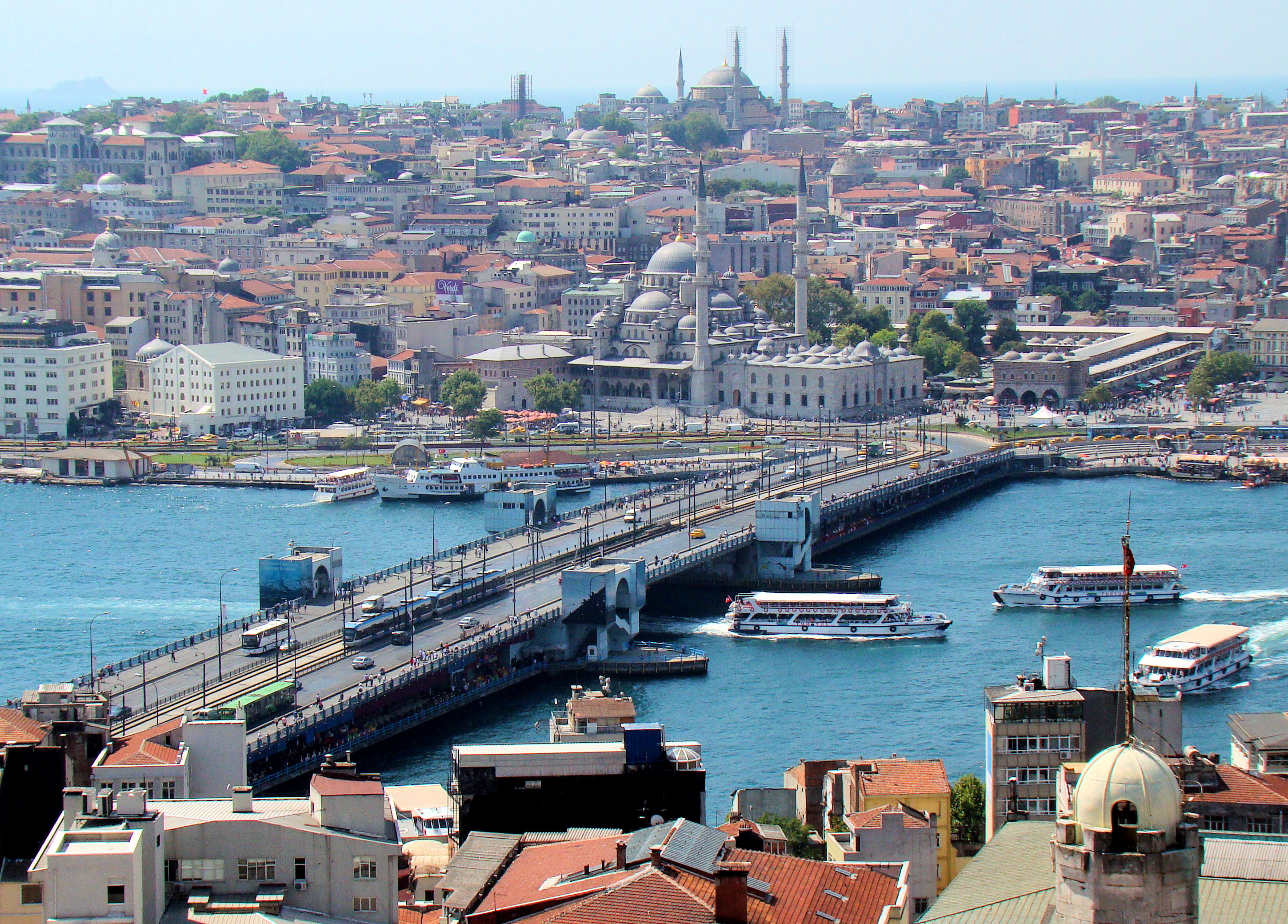 Galata Bridge as seen from the viewing deck on Galata Tower, from the north. The lower deck of the bridge has a lot of restaurants, while the top deck is a popular spot for fishing from. The mosque near the bridge on the other (southern) side is Yeni Camii.